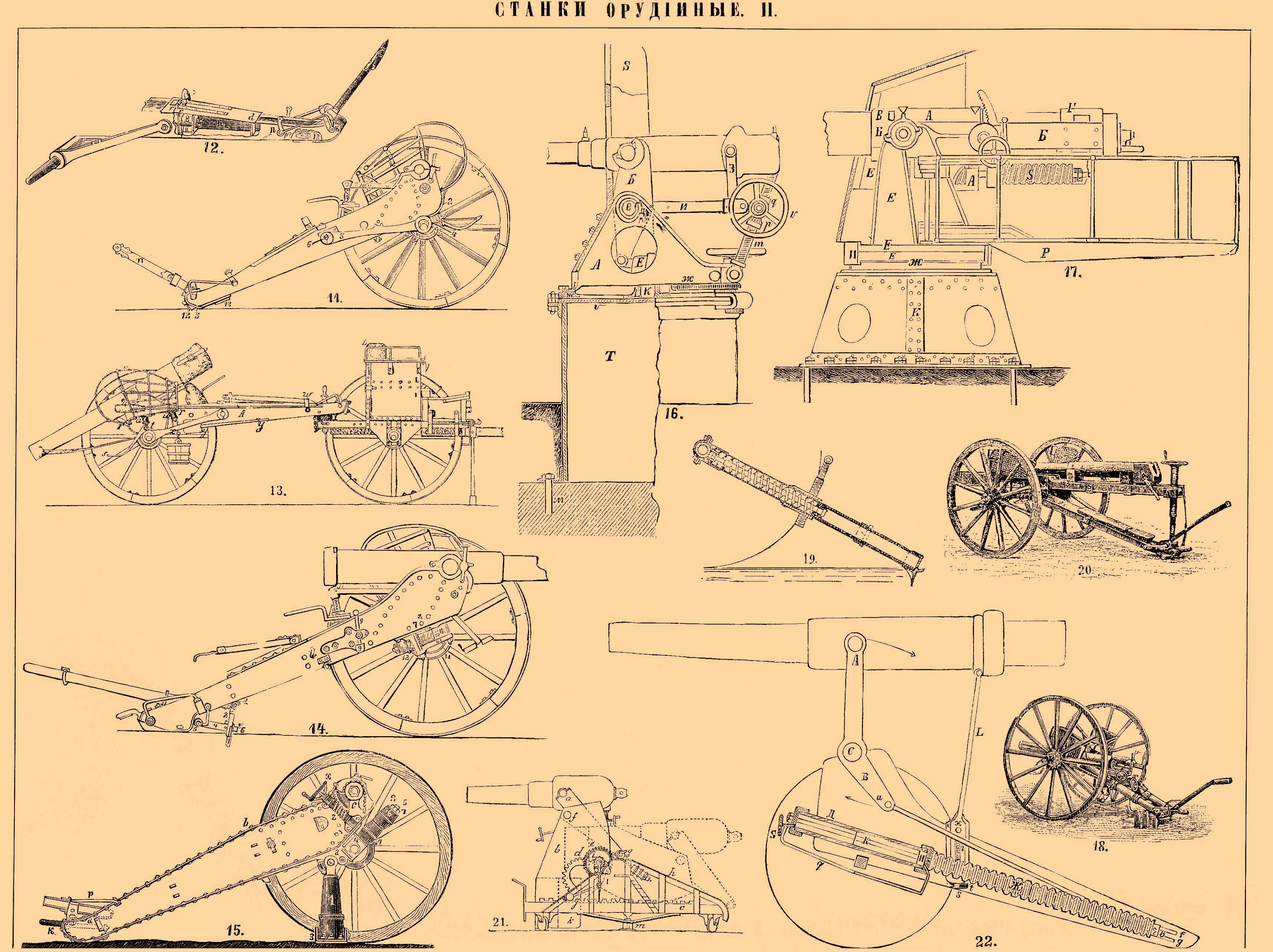 Illustration from Brockhaus and Efron Encyclopedic Dictionary(1890—1907)